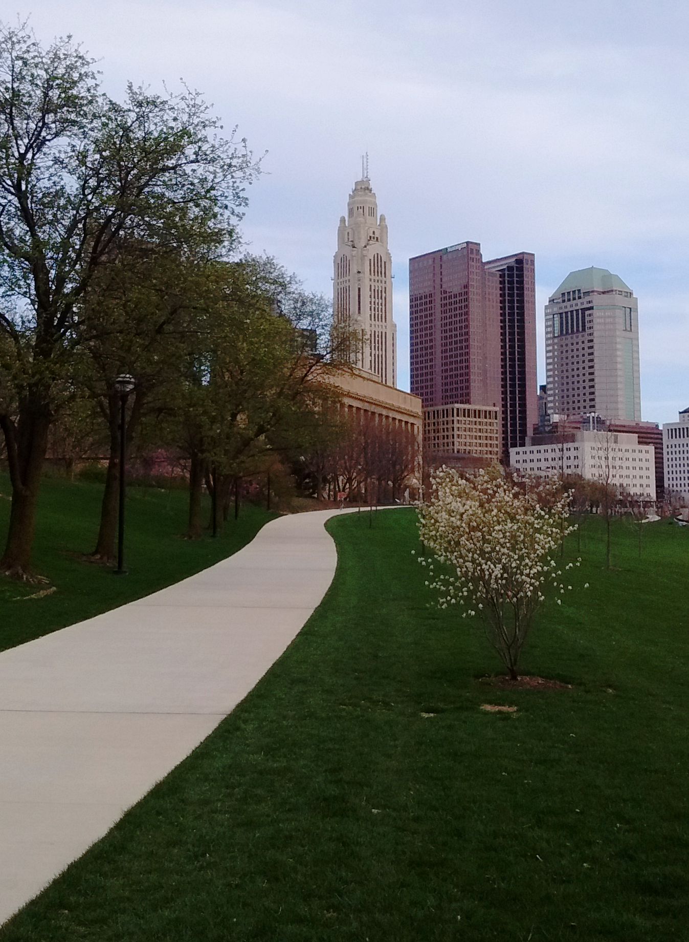 Scioto Mile section of the Scioto Greenway Trail and downtown Columbus, Ohio seen from the north